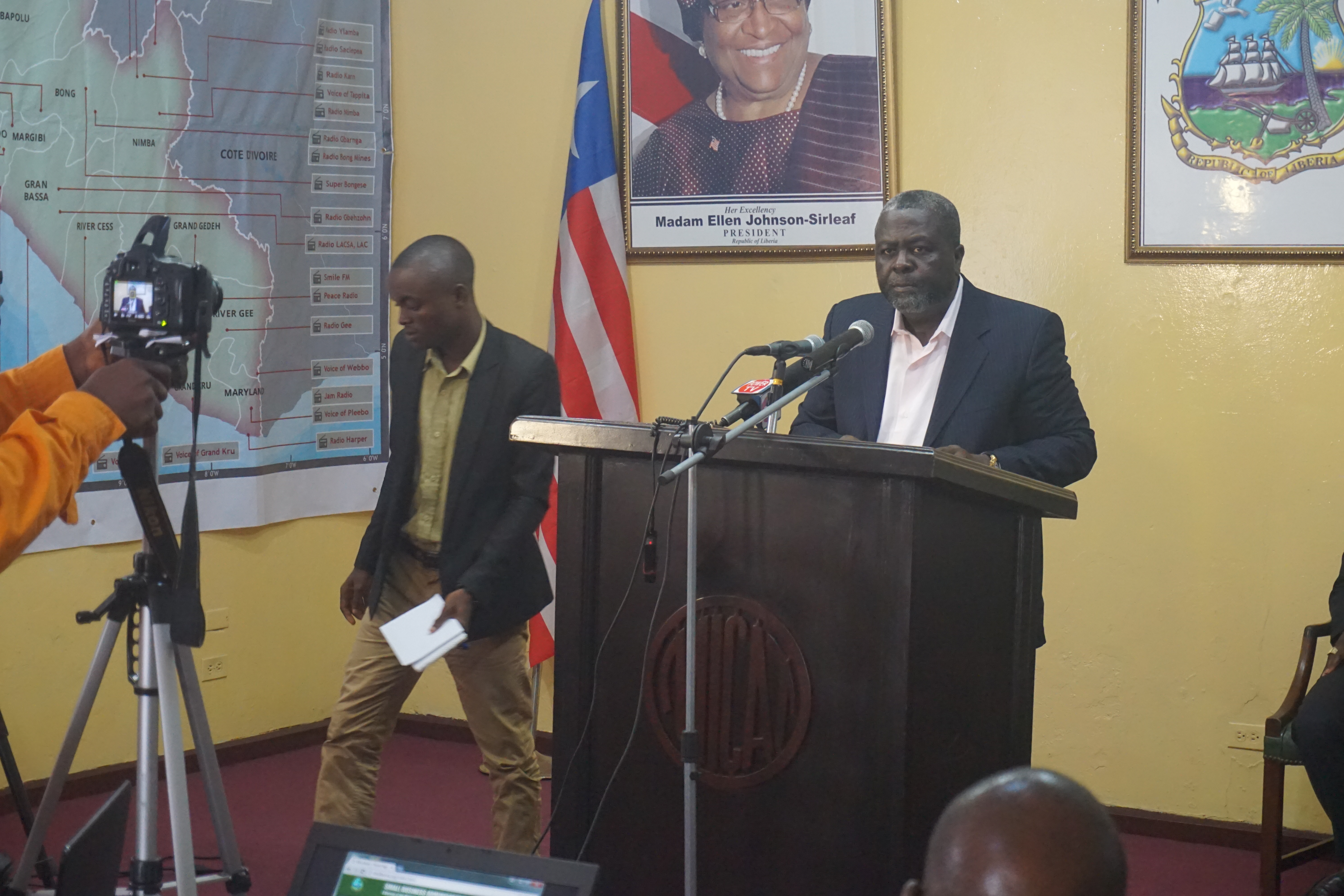 This is an image of music and dance from Liberia